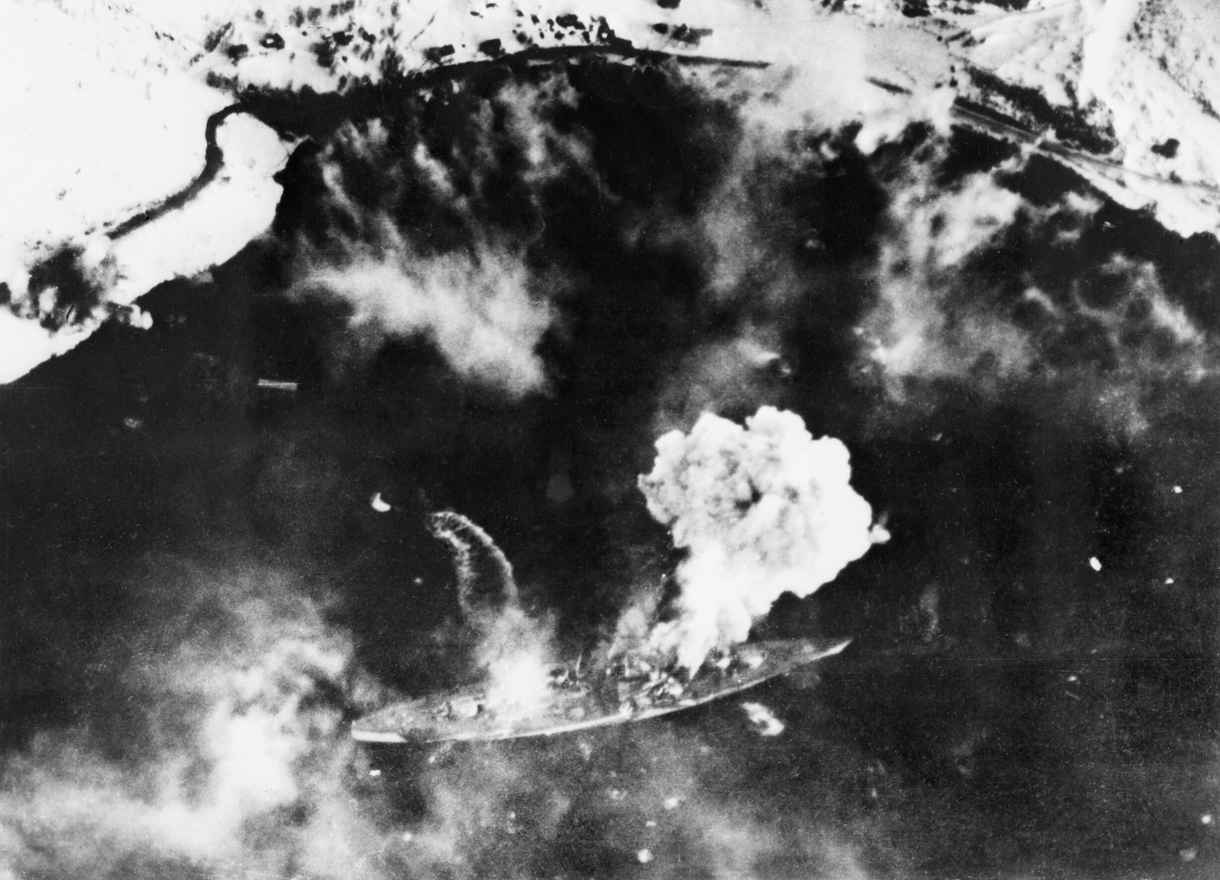 Fleet Air Arm attack the German battleship Tirpitz with heavy and medium sized bombs as she was about to move off from her anchorage at Alten Fjord, Norway, on the morning of 3 April 1944. The Fairey Barracuda bombers were escorted and covered by Supermarine Seafire, Chance-Vought Corsair, Grumman Hellcat, and Grumman Wildcat fighters from HM aircraft carriers of the home fleet under the command of Vice Admiral Sir Henry R Moore, second in command Home Fleet. Photograph shows: The wake of a fast moving motor boat as she hurries away from the battered Tirpitz can be seen as a huge cloud rises from an early bomb hit on the German battleship. During the attack the battleship suffered multiple bomb hits, over one hundred crew members were killed and over three hundred wounded, though the damage was caused to her superstructure and no bombs pierced the armoured deck.